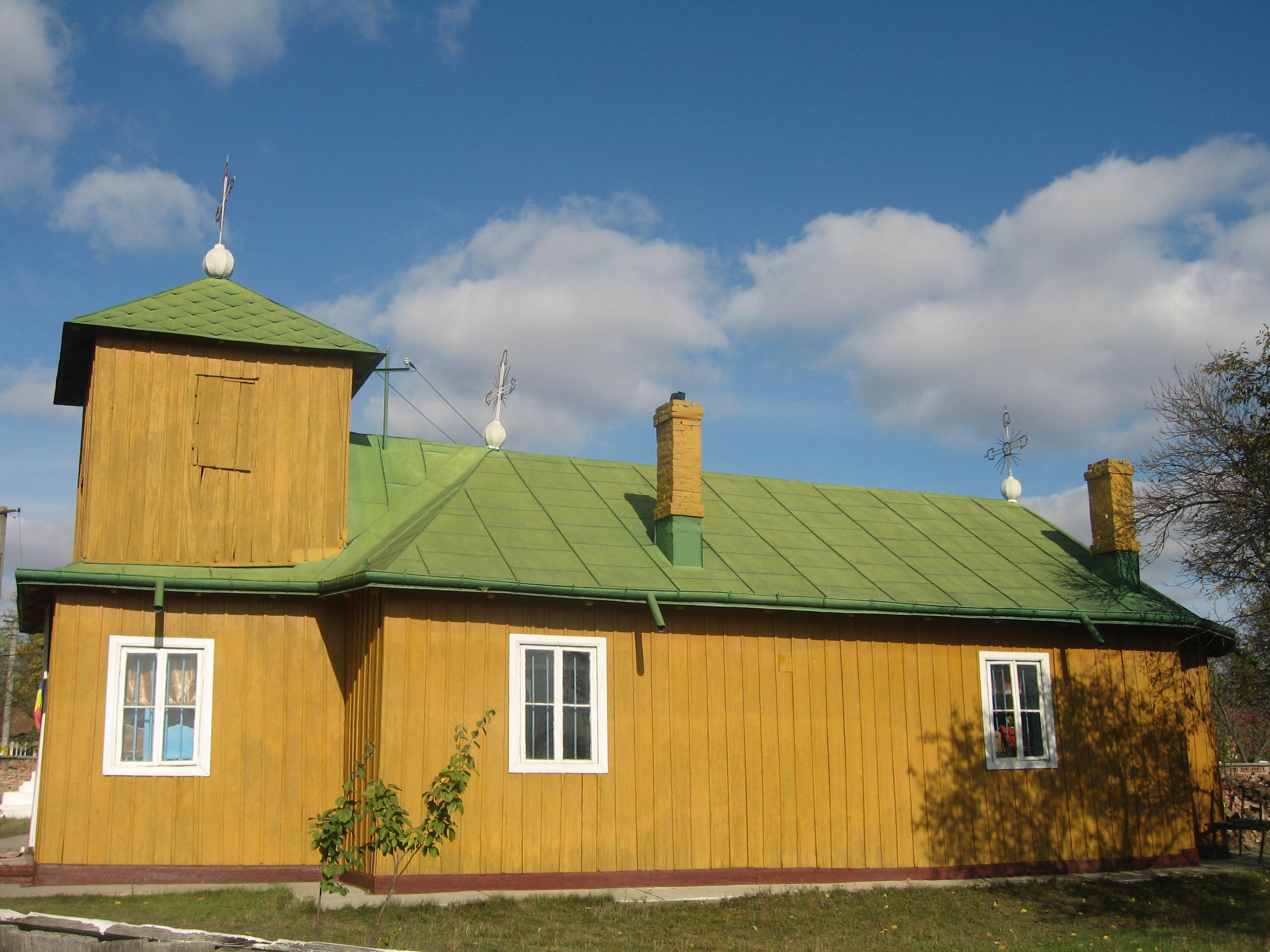 Biserica de lemn din Moreni